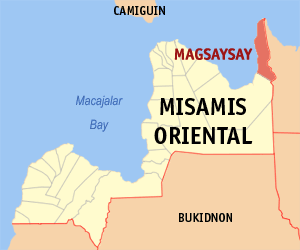 Map of the Misamis Oriental showing the location of Magsaysay